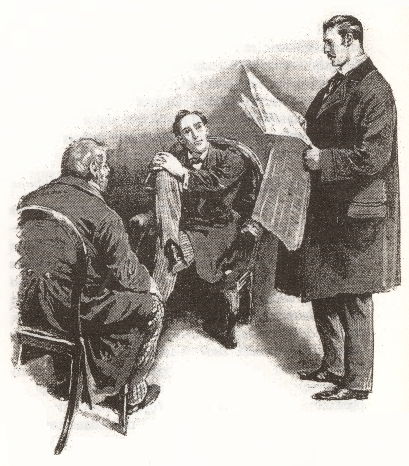 Sherlock Holmes in "The Red-Headed League", which appeared in The Strand Magazine in August, 1891. Original caption was "WHAT ON EARTH DOES THIS MEAN?"